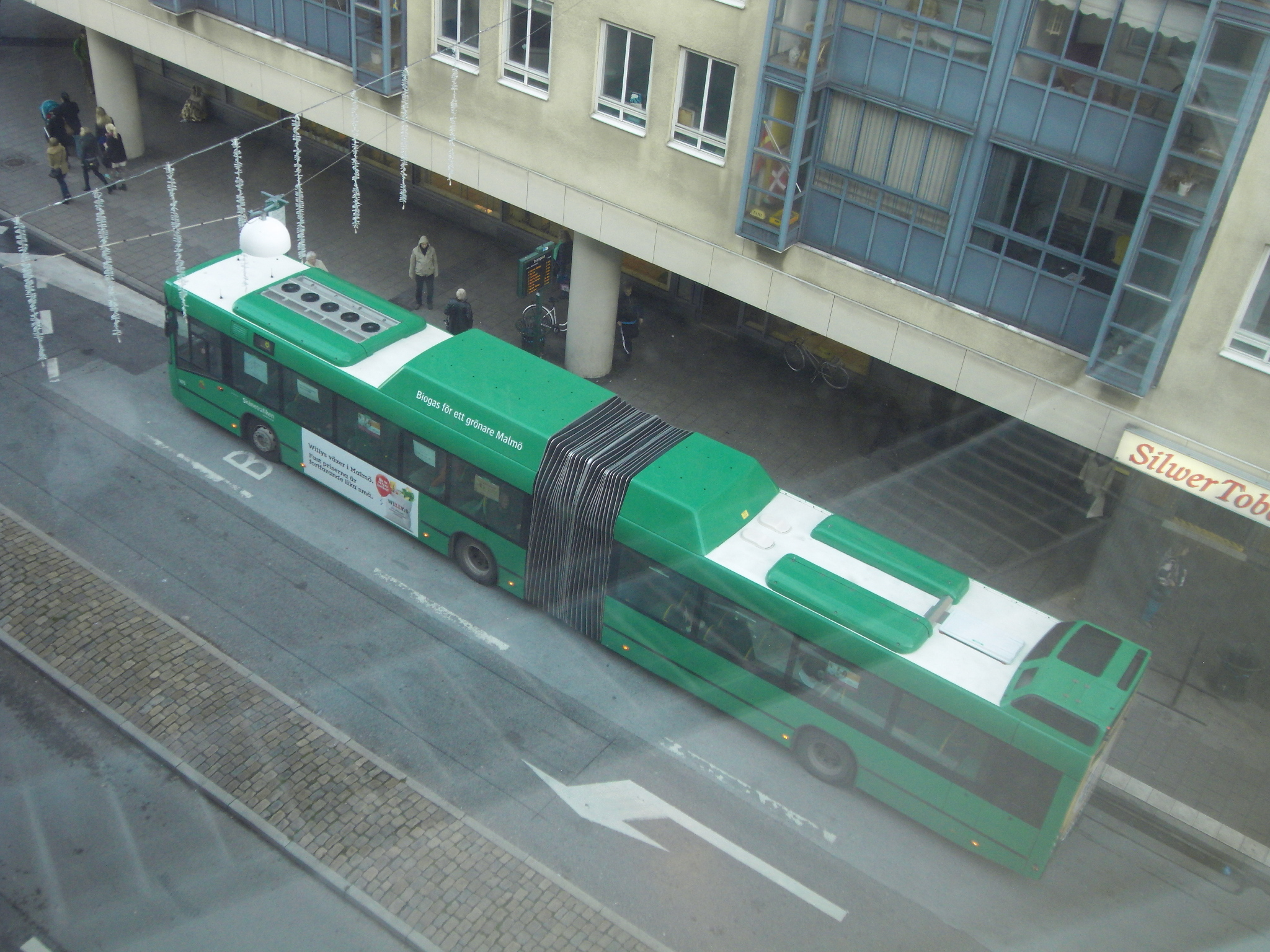 This is a city bus (bus 8), taken far up from a building, and behind a window, because I knew it was no use to open it, in the neighbourhood Triangeln in the city of Malmo. The city buses, as the name indicates, only drive in Malmo and are green, while the region buses drive both in Malmo and to other cities in Scania and are yellow. The picture is photographed 8 November, 2013.